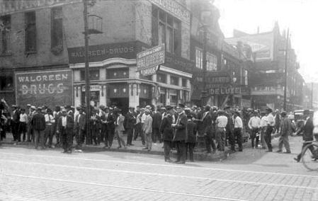 A crowd of African American men standing on the sidewalks in front of a Walgreen Drugs at the corner of 35th and South State Street in the Douglas community area of , during a race riot. Police officers are standing at the forefront of the crowd.